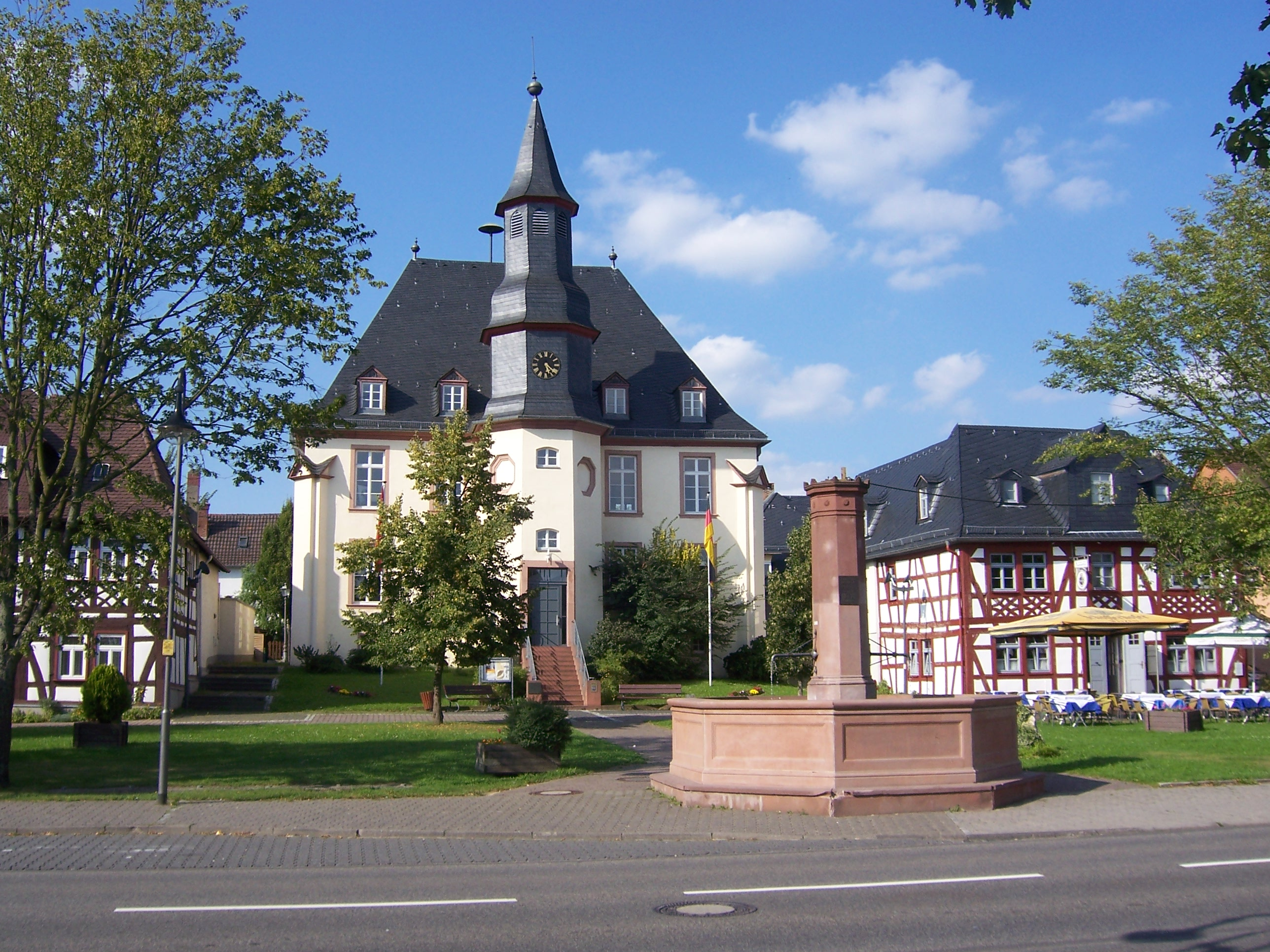 Usingen has a charming down-town. You’ll recognize a church like building (Hugenottenkirche) when you follow main street. There is quite some history around that one. Nowadays it houses the Usingen library. On the upper floors are found many places where concerts and gatherings can be accommodated. The wedding room is a favorite place for couples to plight their troth.